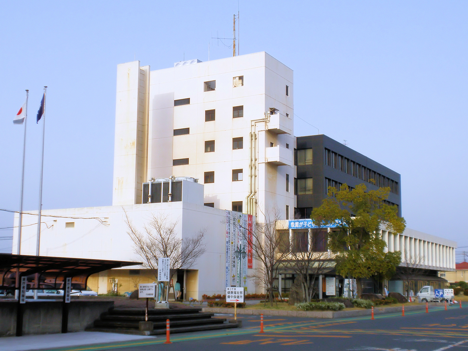 Okayama prefecture Bitchu general service bureau